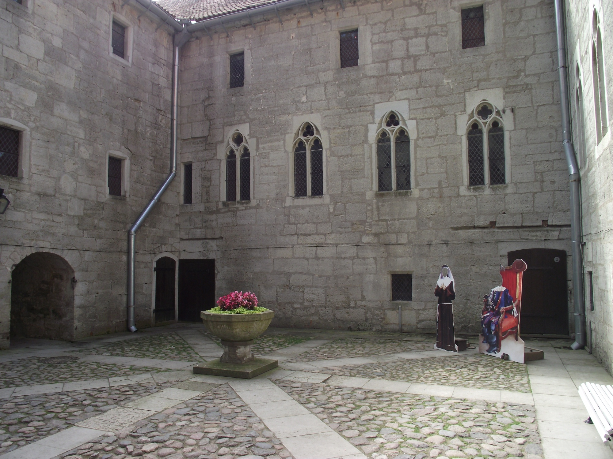 Inner court of Kuressaare castle.